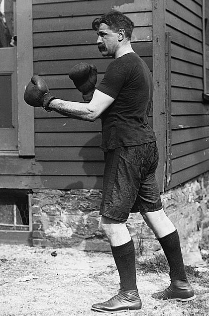 Frank Parks in 1911, cropped from larger image (File:Parks 2162687535 5499da611a o.jpg, moved to here File:Frank Parks.jpg). [between ca. 1910 and ca. 1915] 1 negative : glass ; 5 x 7 in. or smaller. Notes: Title from unverified data provided by the Bain News Service on the negatives or caption cards. Forms part of: George Grantham Bain Collection (Library of Congress). Subjects: Boxing Format: Glass negatives. Repository: Library of Congress, Prints and Photographs Division, Washington, D.C. 20540 USA, General information about the Bain Collection is available at Persistent URL: Call Number: LC-B2- 2211-3